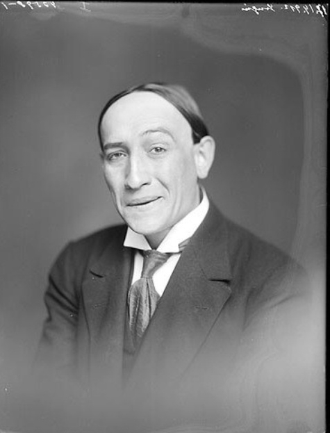 artist Emil Artur Longen 1912